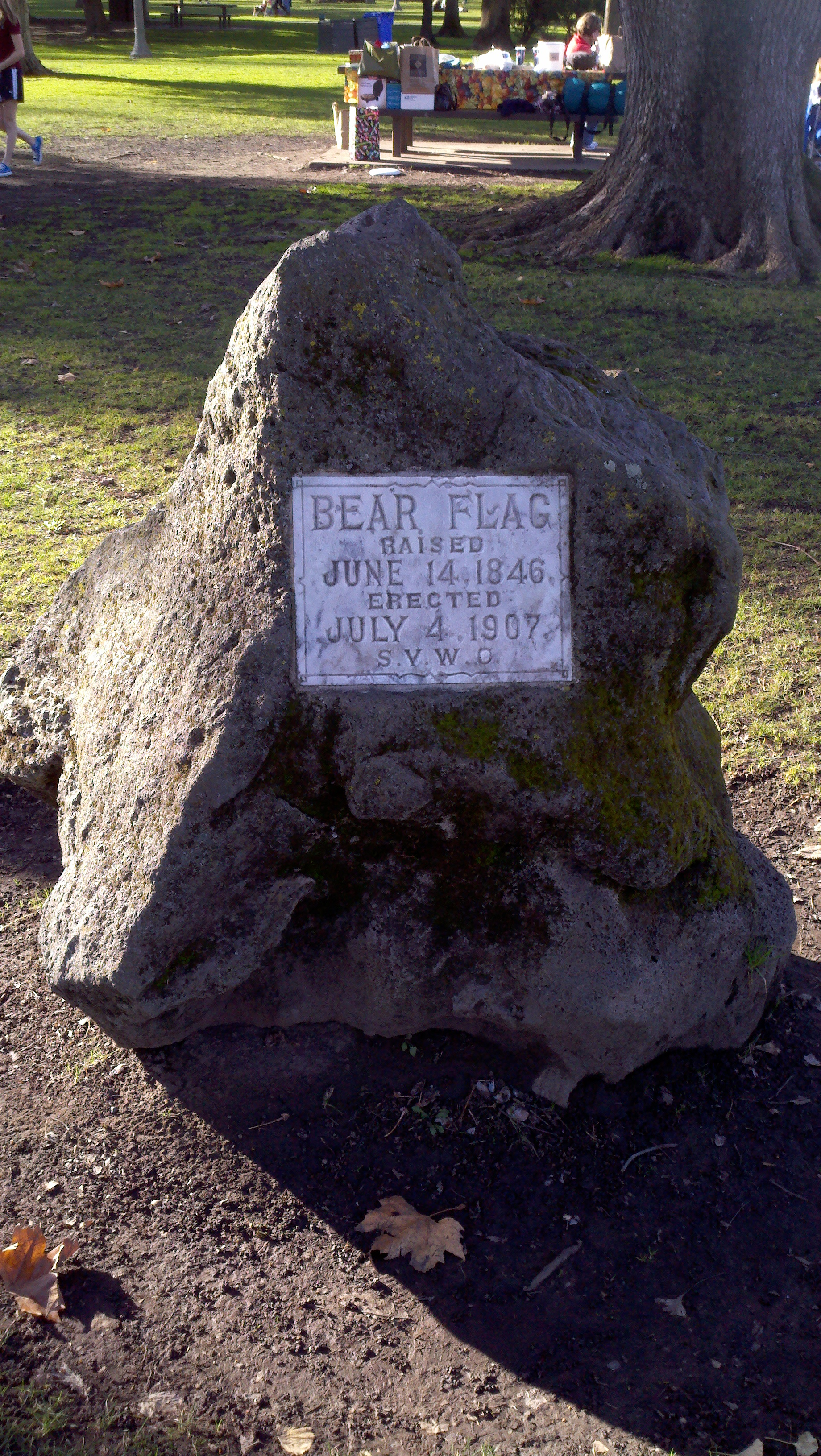 The Bear Flag monument on the Sonoma Plaza in Sonoma, California